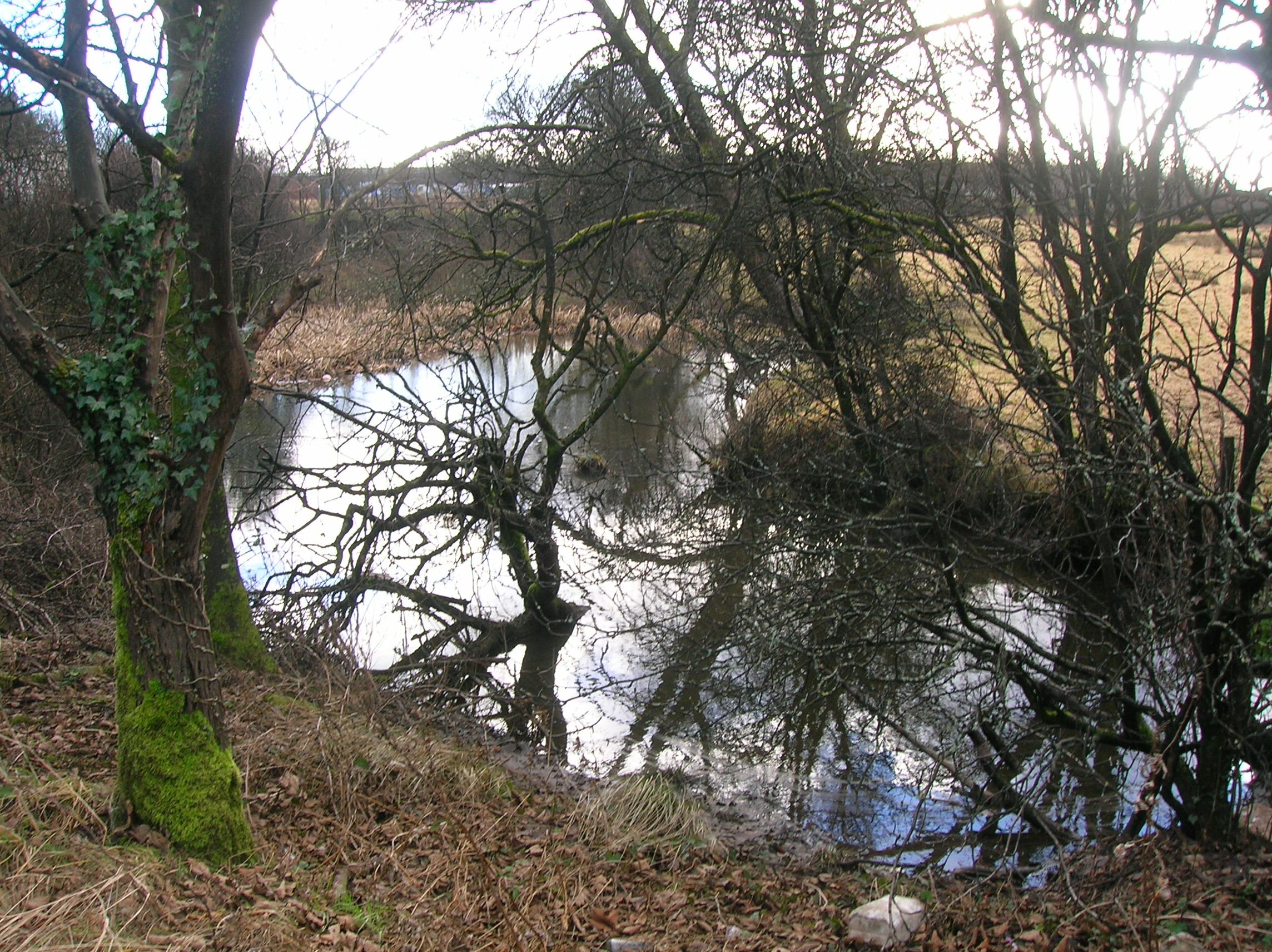 An old ornamnetal pond formed in a small whinstone quarry at Willowyard House, Beith, North Ayrshire, Scotland.